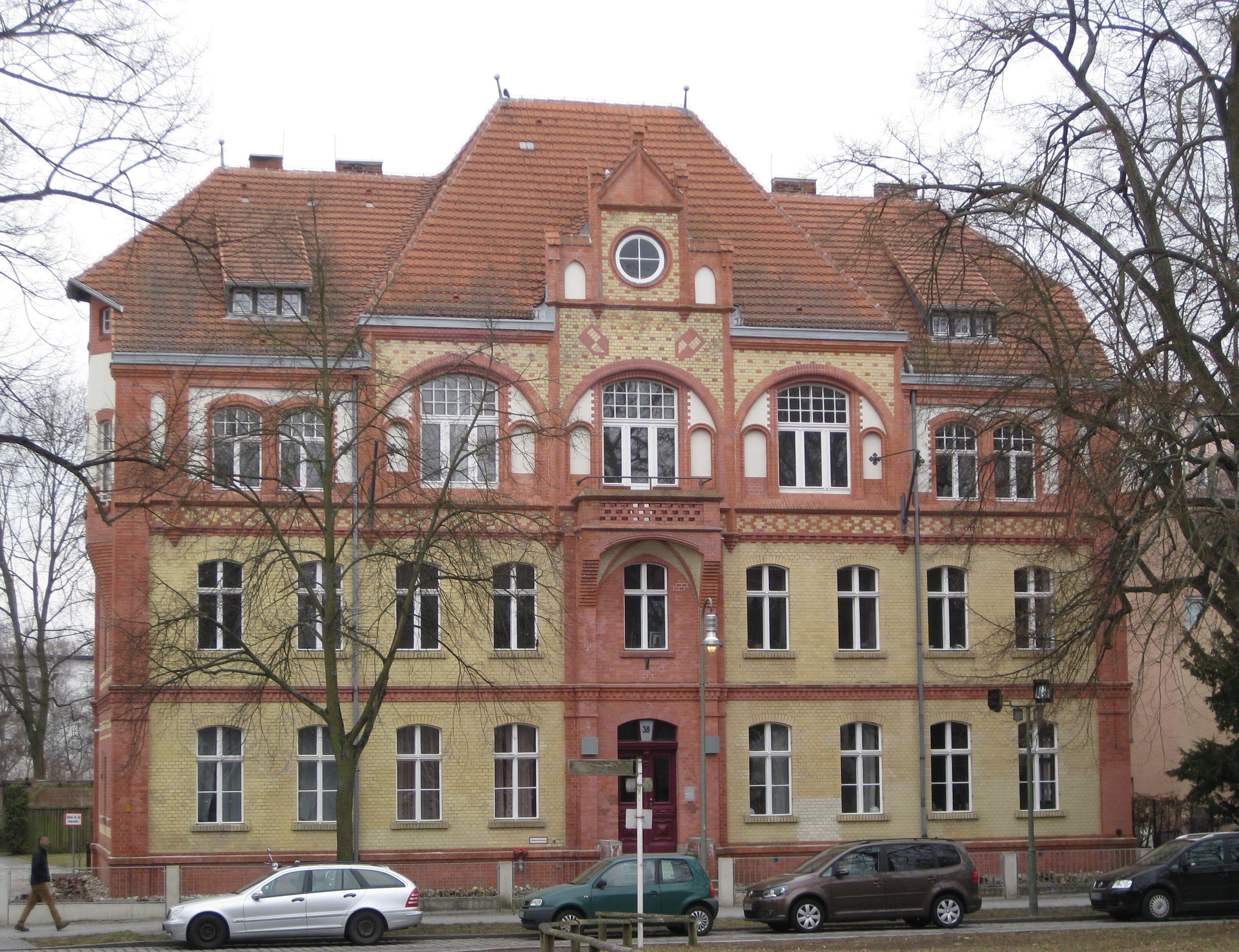 The facade of the building Alt-Reinickendorf 38.